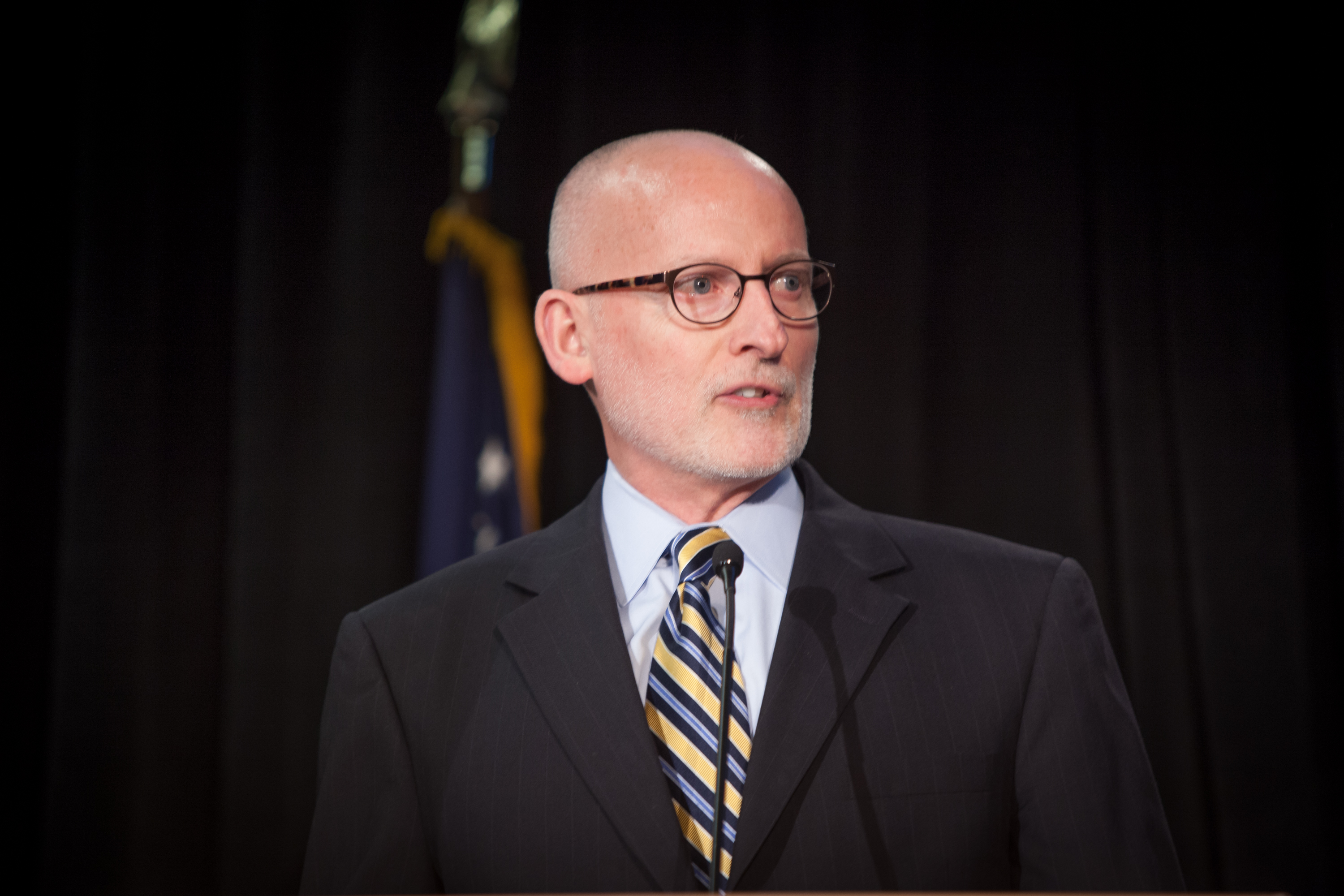 Tim Burgess Speak at the 2014 Inauguration